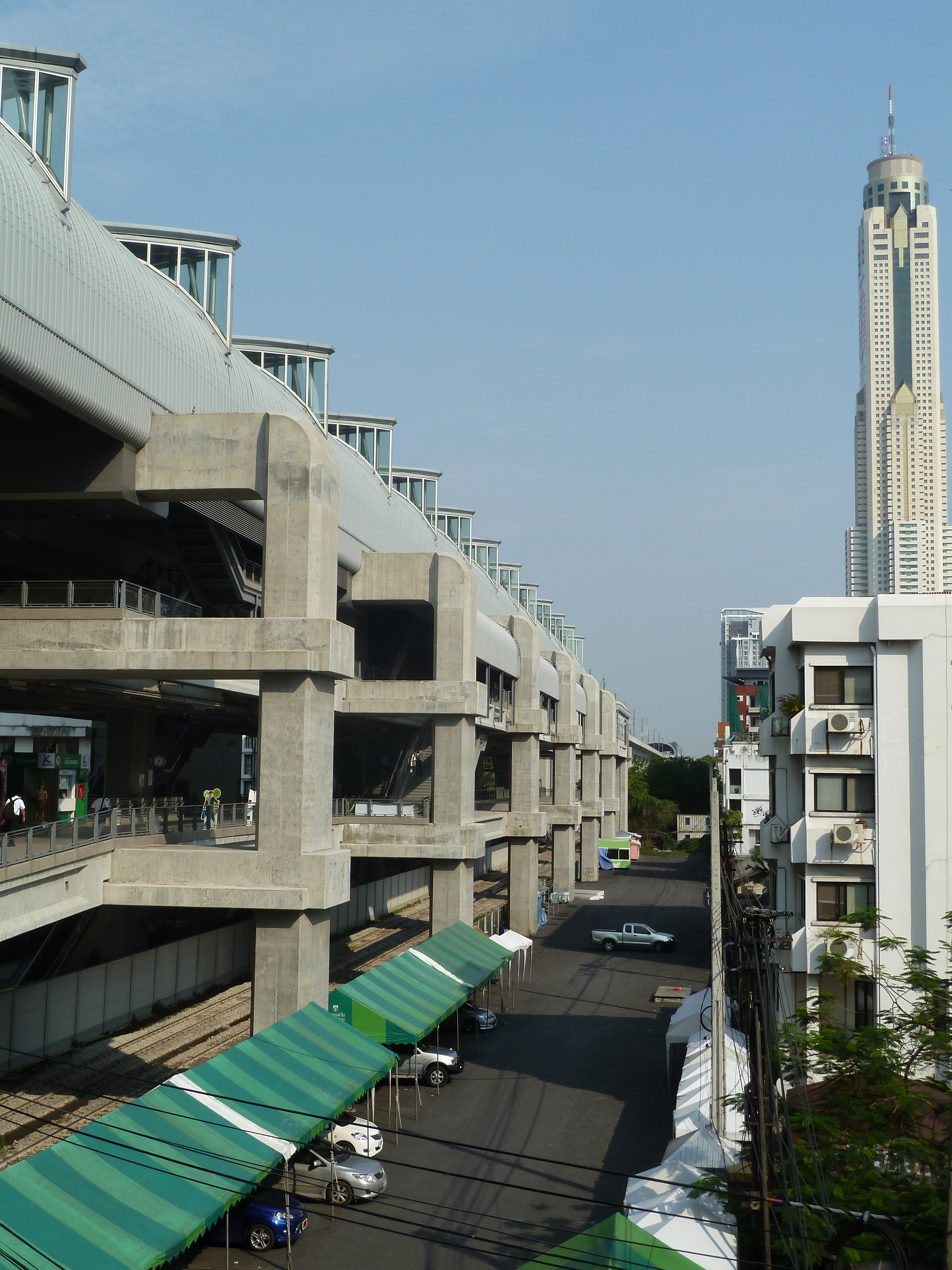 Phaya Thai Station, Sukhumvit Line, Bangkok Skytrain, Thailand